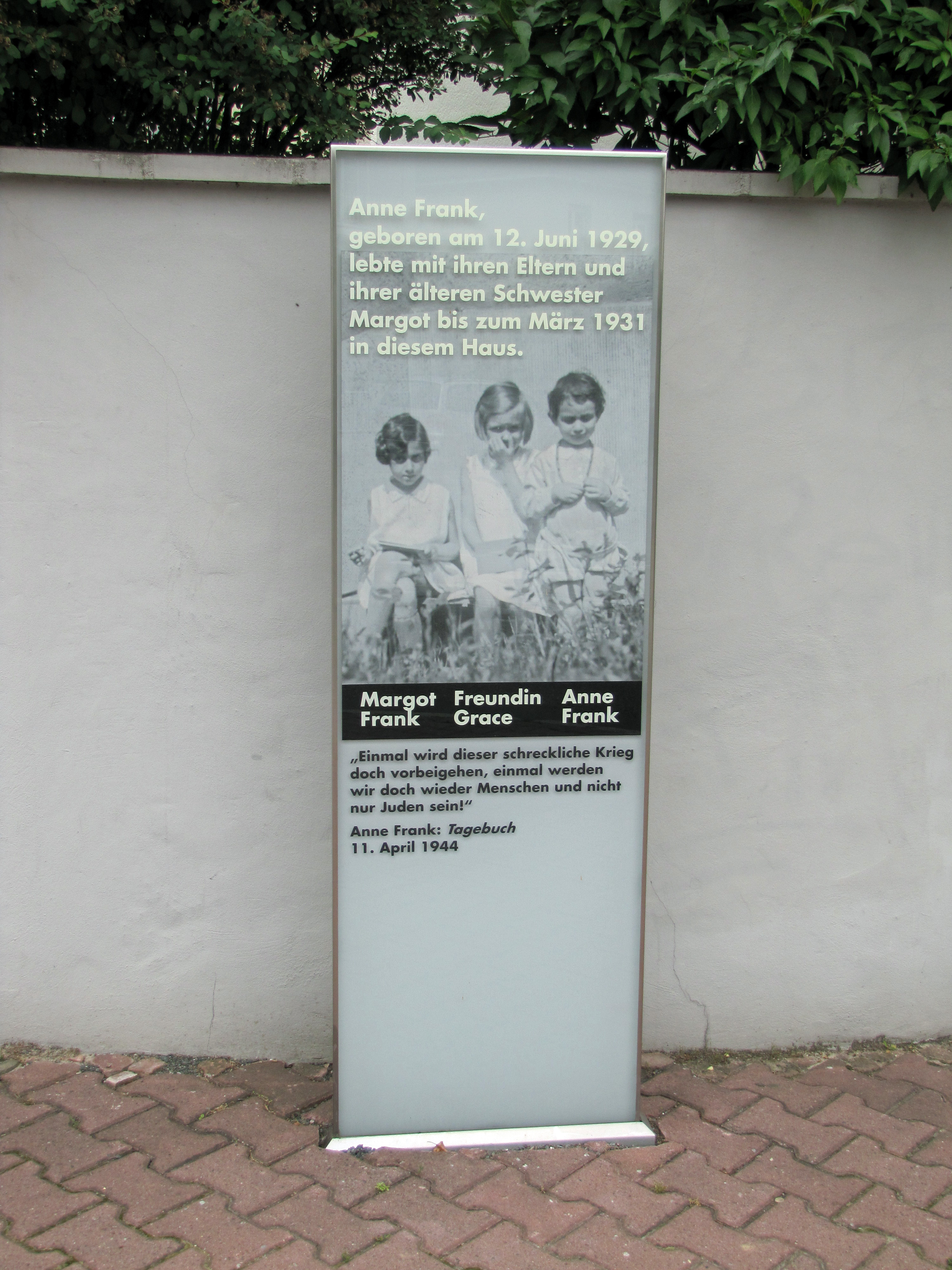 Memorial stele (artist: Bernd Fischer) at the house were Anne Frank was born, in Frankfurt am Main, Marbachweg No. 307.